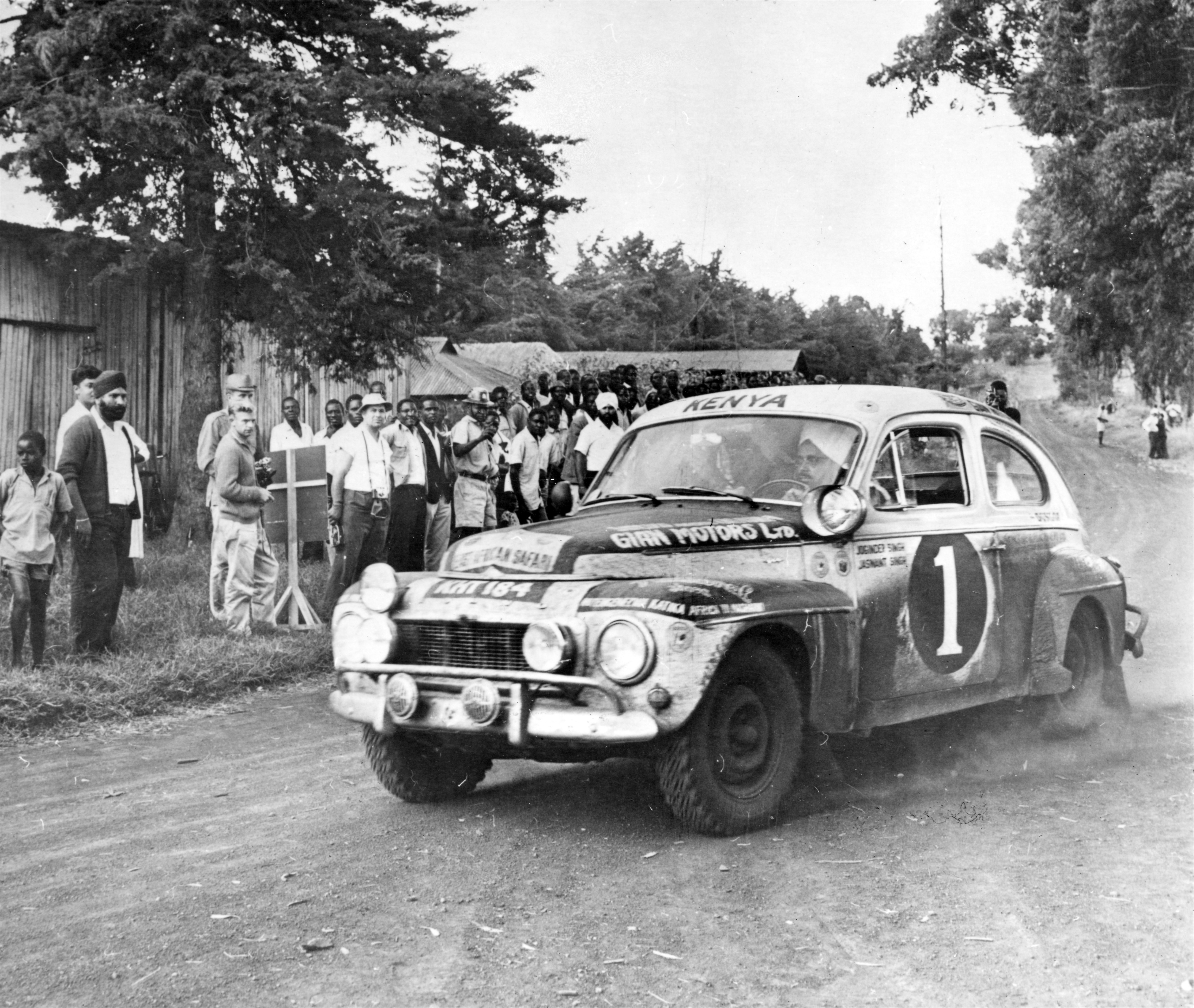 Joginder Singh, his brother Jaswant and their Volvo PV 544 claiming first place at the East African Safari Rally in 1965.